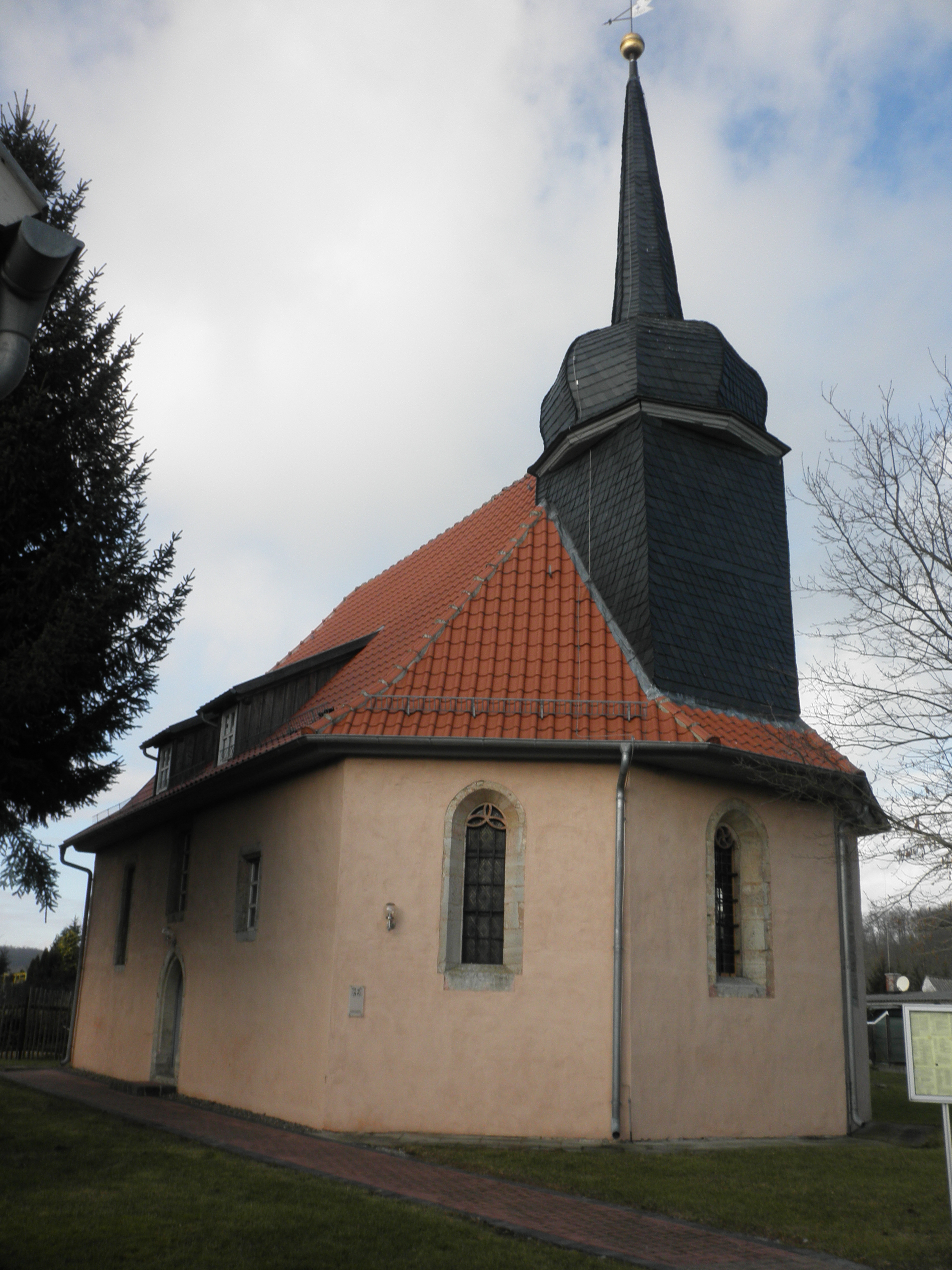 Church in Zaunröden in Unstrut-Hainich-Kreis in Thuringia